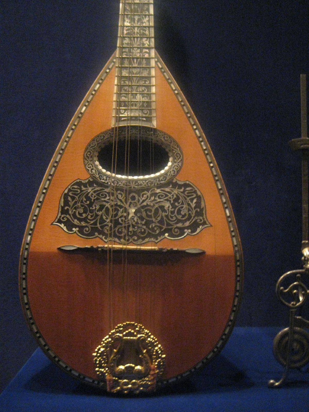 Neapolitan mandolin, by Angelo Mannello, New York, 1900. Maple, spruce, ebony, mother-of-pearl, tortoiseshell, and partially gilt nickel-silver. Apparently one of the finest decorative mandolins ever made.